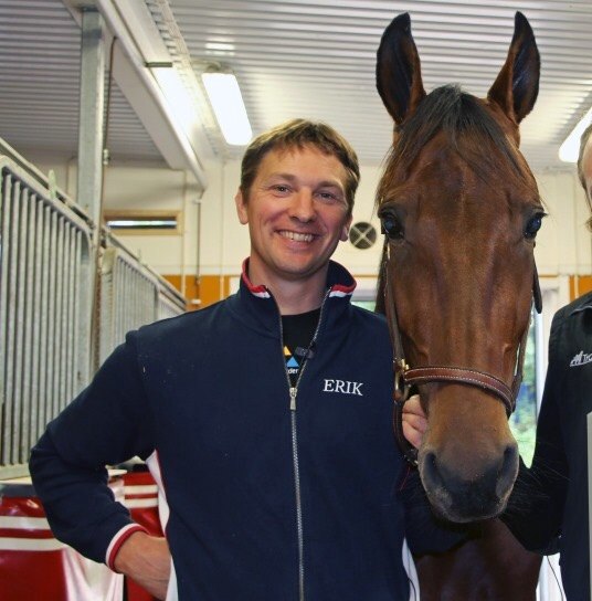 Erik Lindegren & Ochongo Face 2015-09-17.